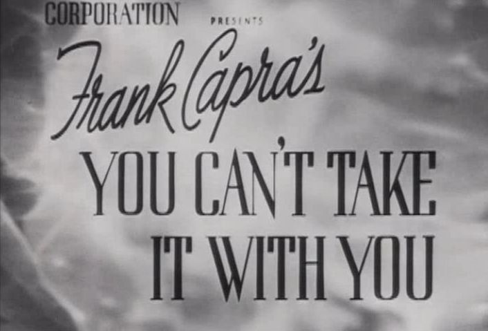 Screenshot from the trailer for the film You Can't Take It with You